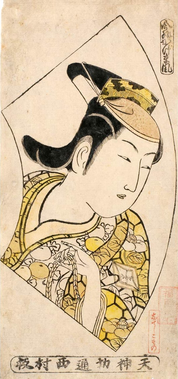 A Modern Wakashu Prostitute by Yanagawa Shigenobu, 1716, Honolulu Museum of Art